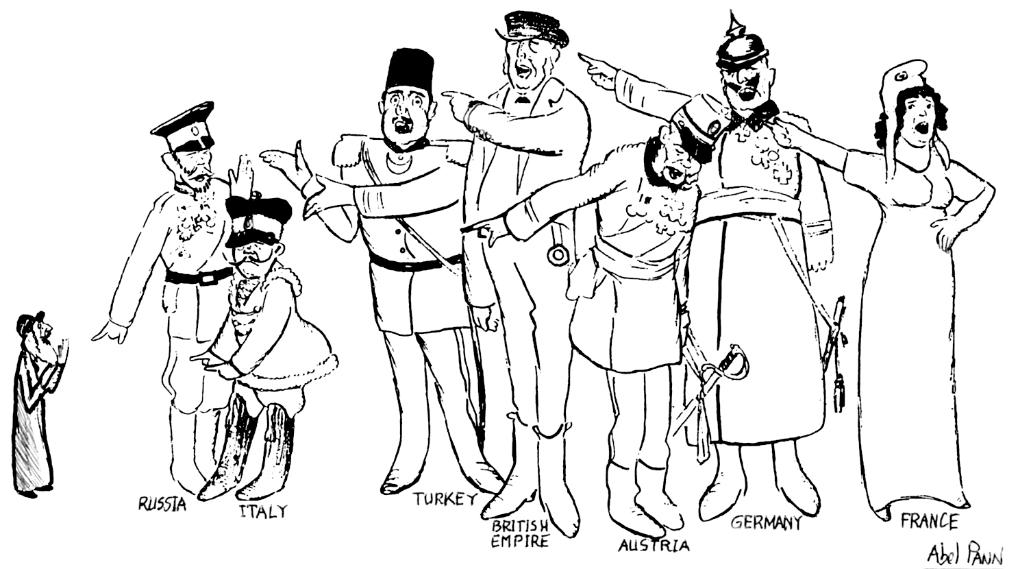 The scapegoat and the blacksheep of Europe, drawing of Abel Pann, 1915